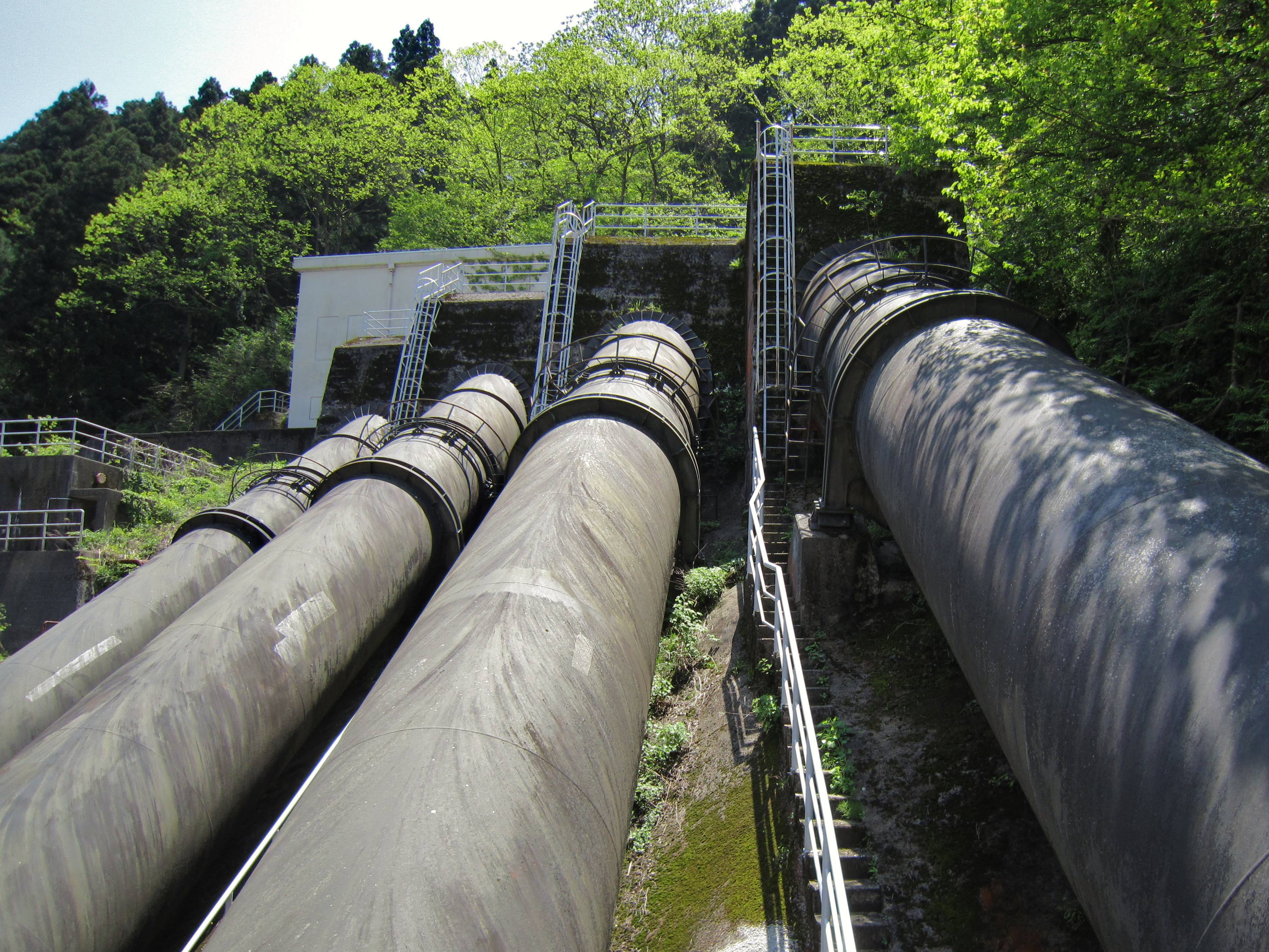 Komaki power station penstocks.